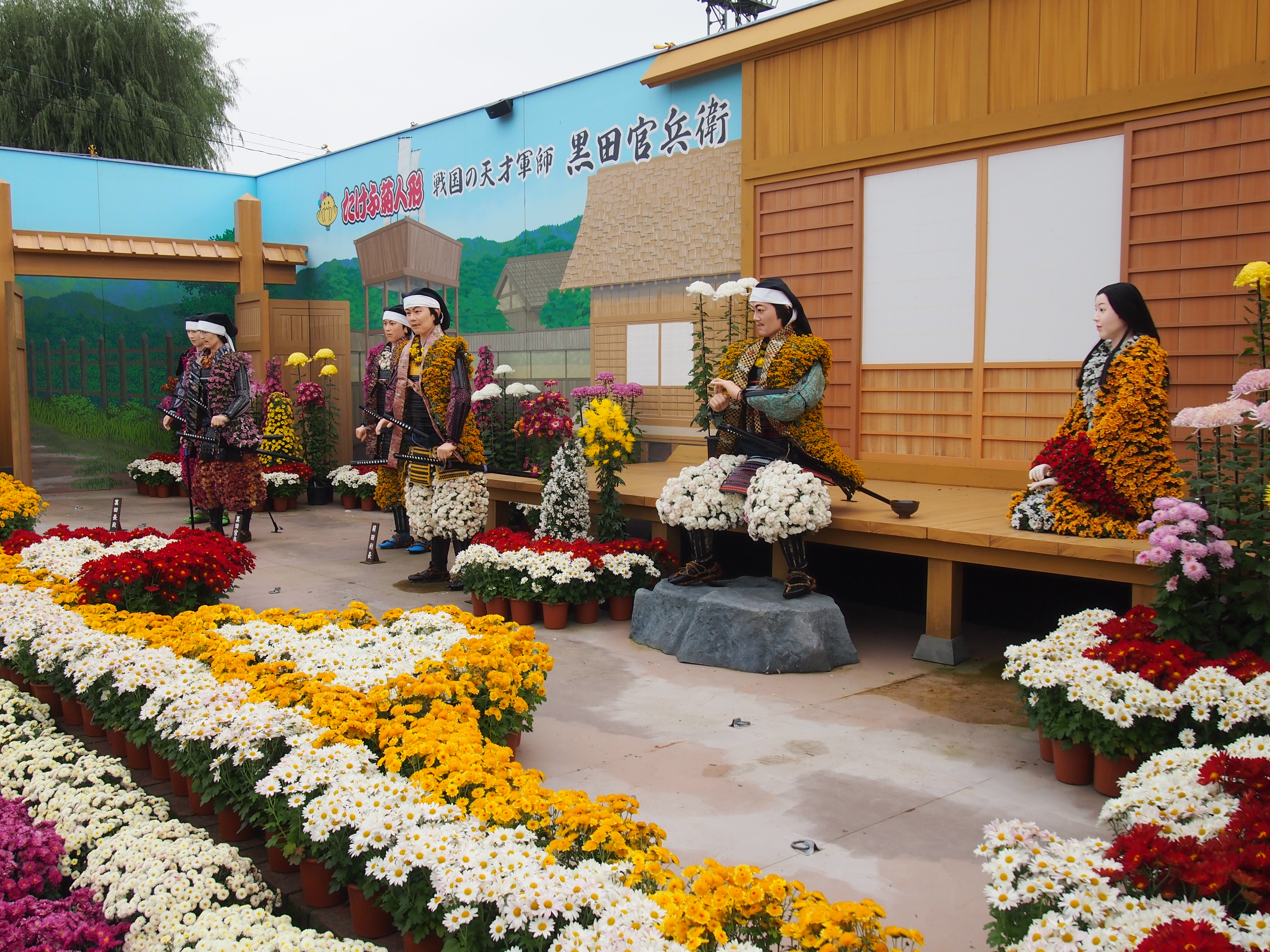 Life-size dolls covered with chrysanthemums, which are exhibited during the Kikuningyo(Chrysanthemum Doll) Festival in Takefu Central Park, Echizen City, Fukui Prefecture.